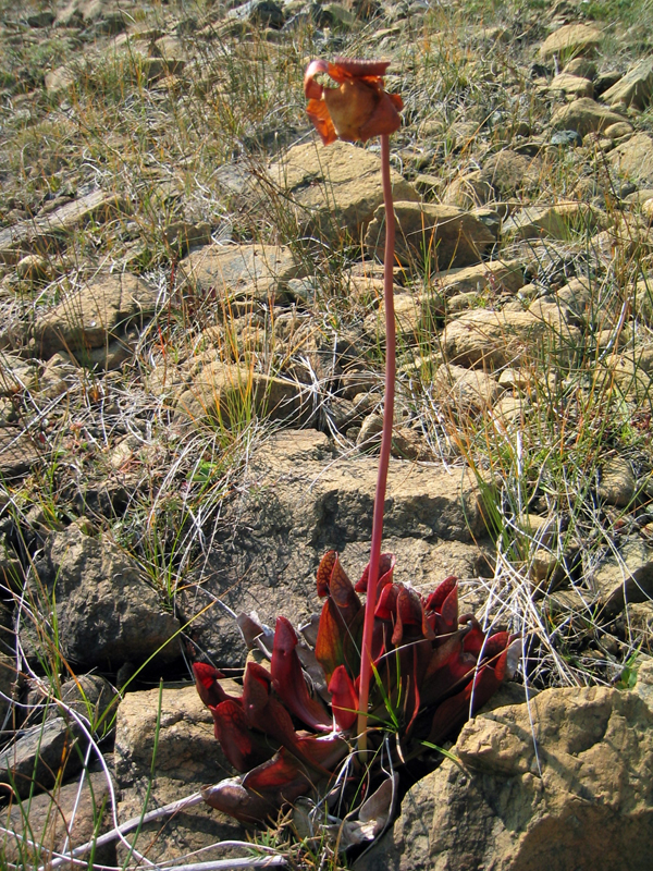 purple pitcher-plant